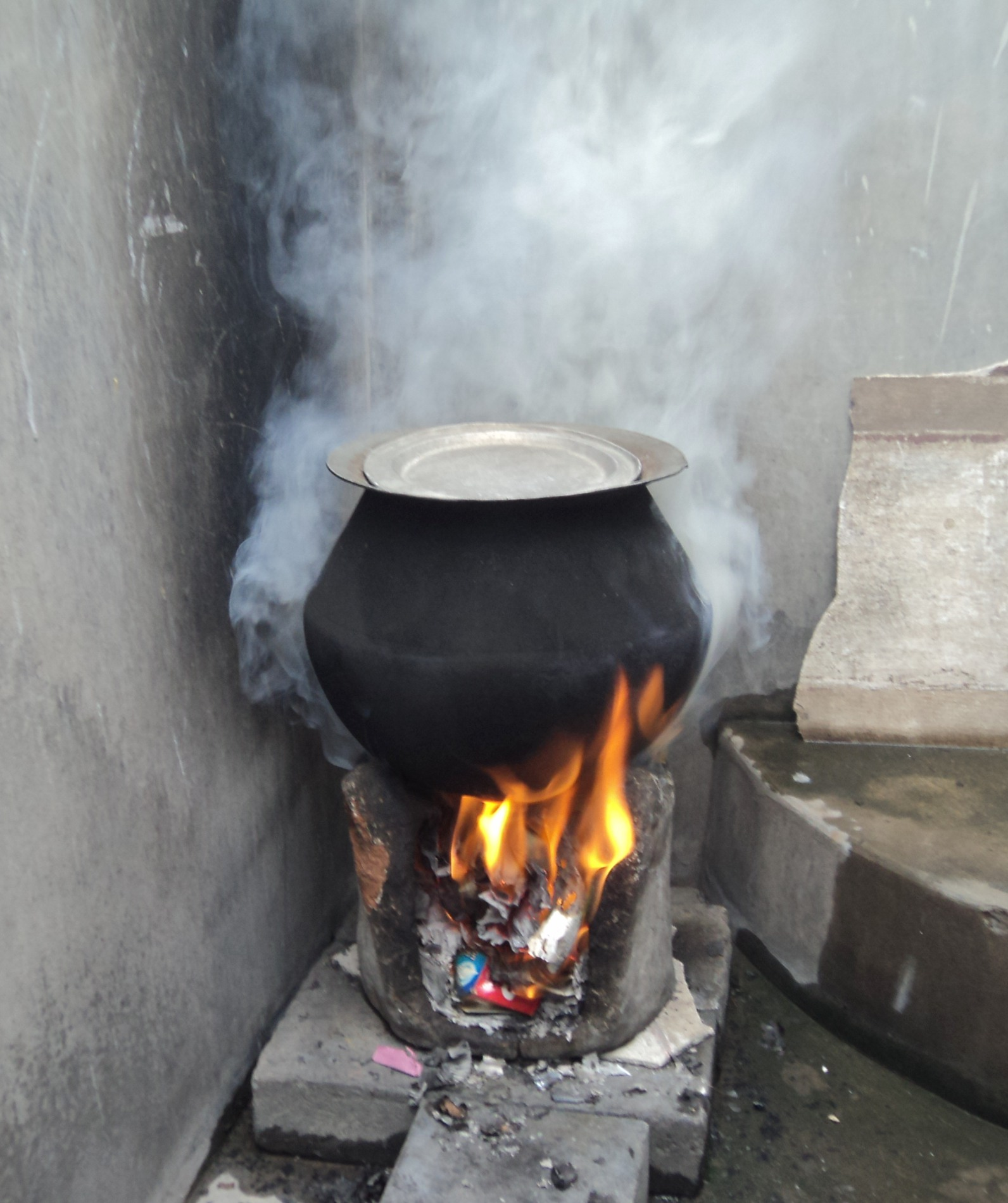 The rural stove which is used to burn plantation waste, paper waste.It ia too smoky and having much pollution impacts,Tamil Nadu, India